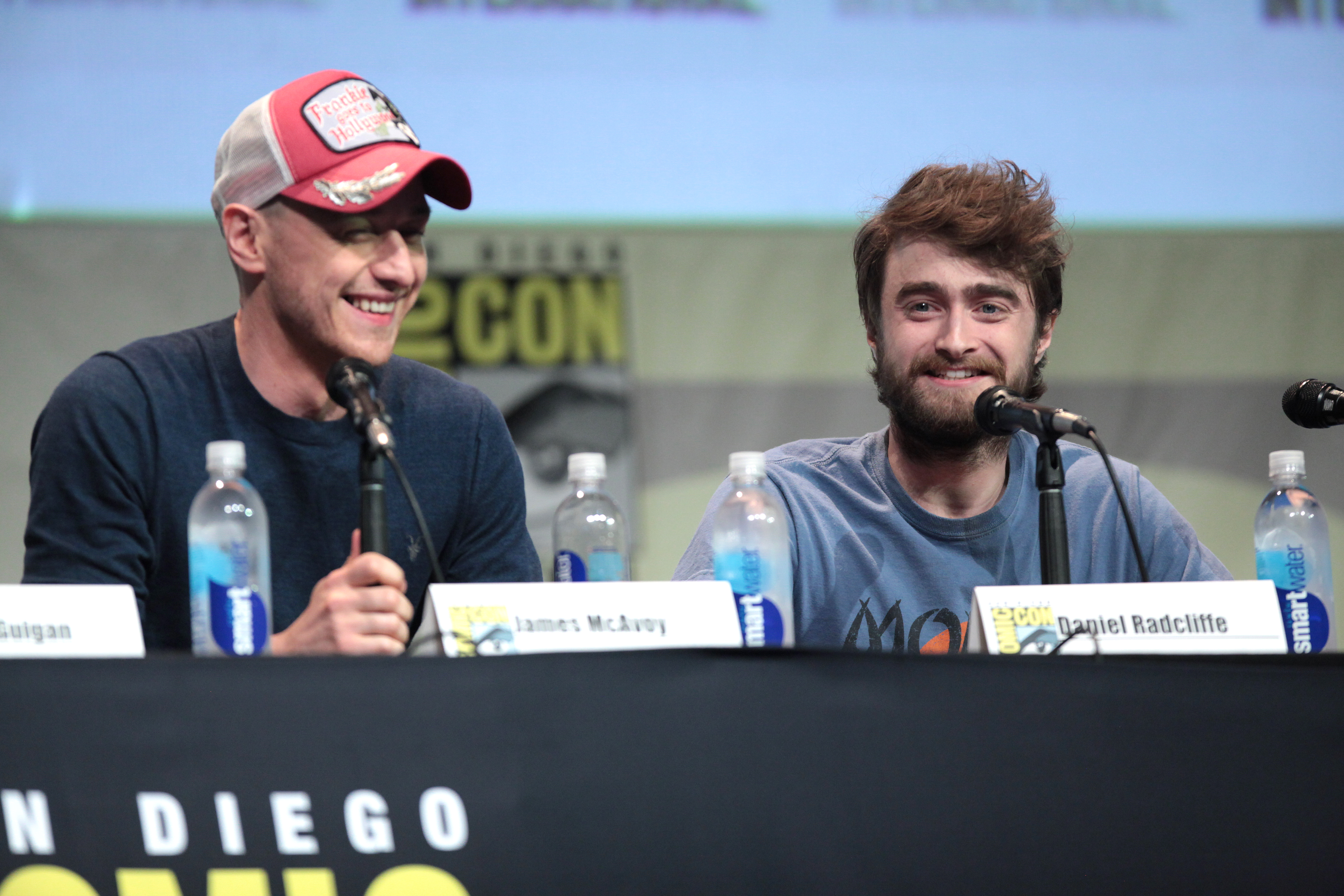 James McAvoy and Daniel Radcliffe speaking at the 2015 San Diego Comic Con International, for "Victor Frankenstein", at the San Diego Convention Center in San Diego, California.